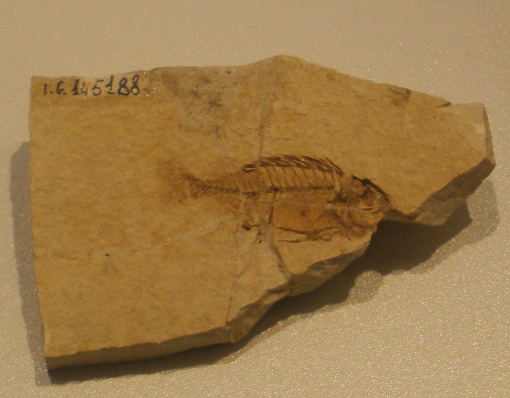 Fossil of Ruffoichthys spinosus, an extinct fish